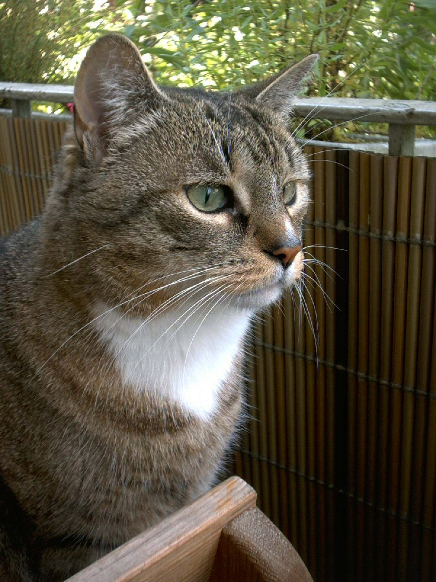 European shorthair cat, gray tabby, from Tierheim Bochum (sanctuary Bochum). Cat is named Lucy, died in September 2008.